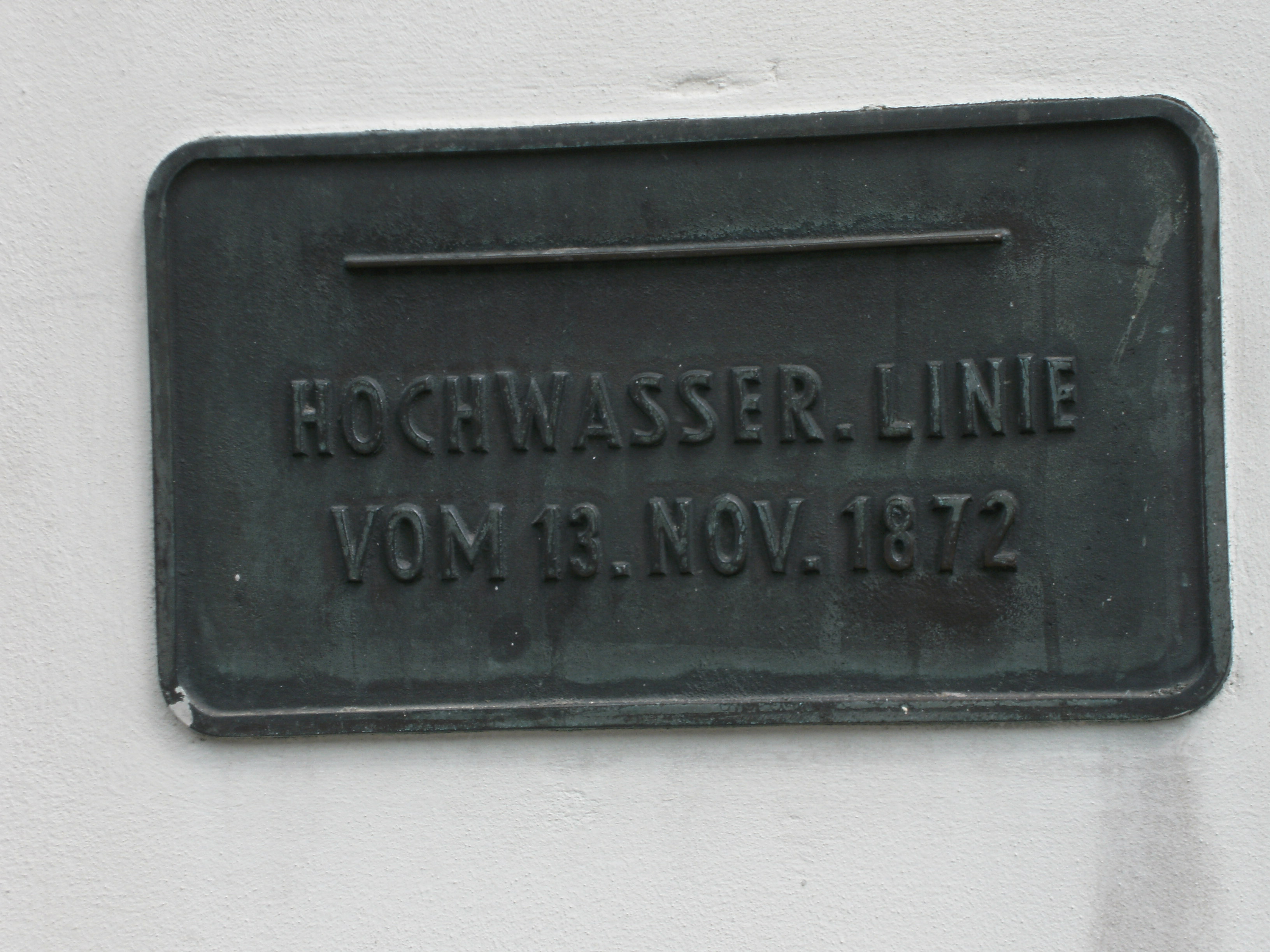 High-water mark on building An der Obertrave/Ecke Große Petersgrube in Lübeck, Germany to remember November, 13 1872.